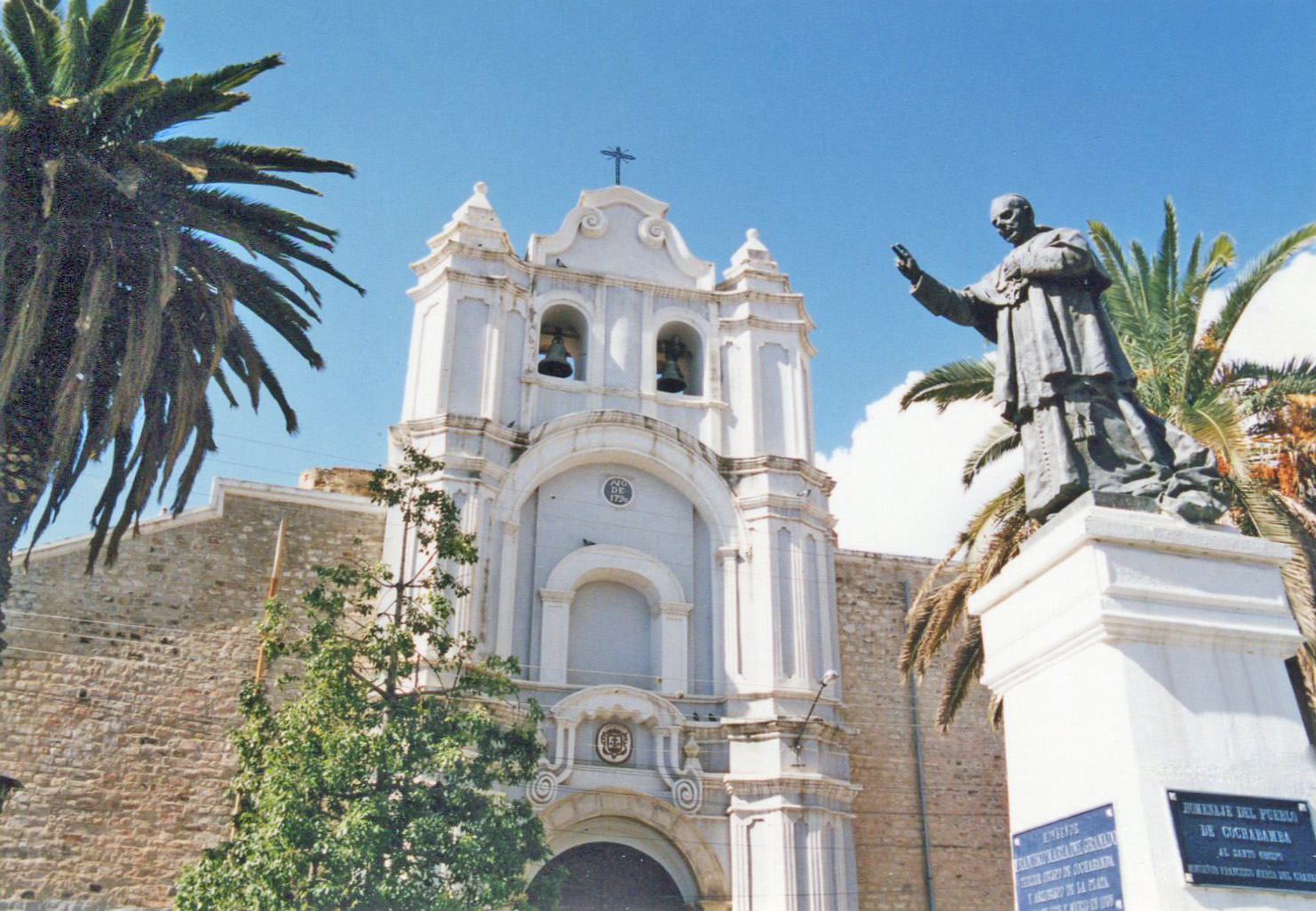 Estatua del obispo Francisco María del Granado al frente al convento de Santa Teresa, construido en 1760